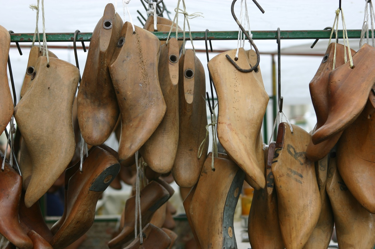 Shoe form keepers from wood.jpg or maybe prosthetic feet